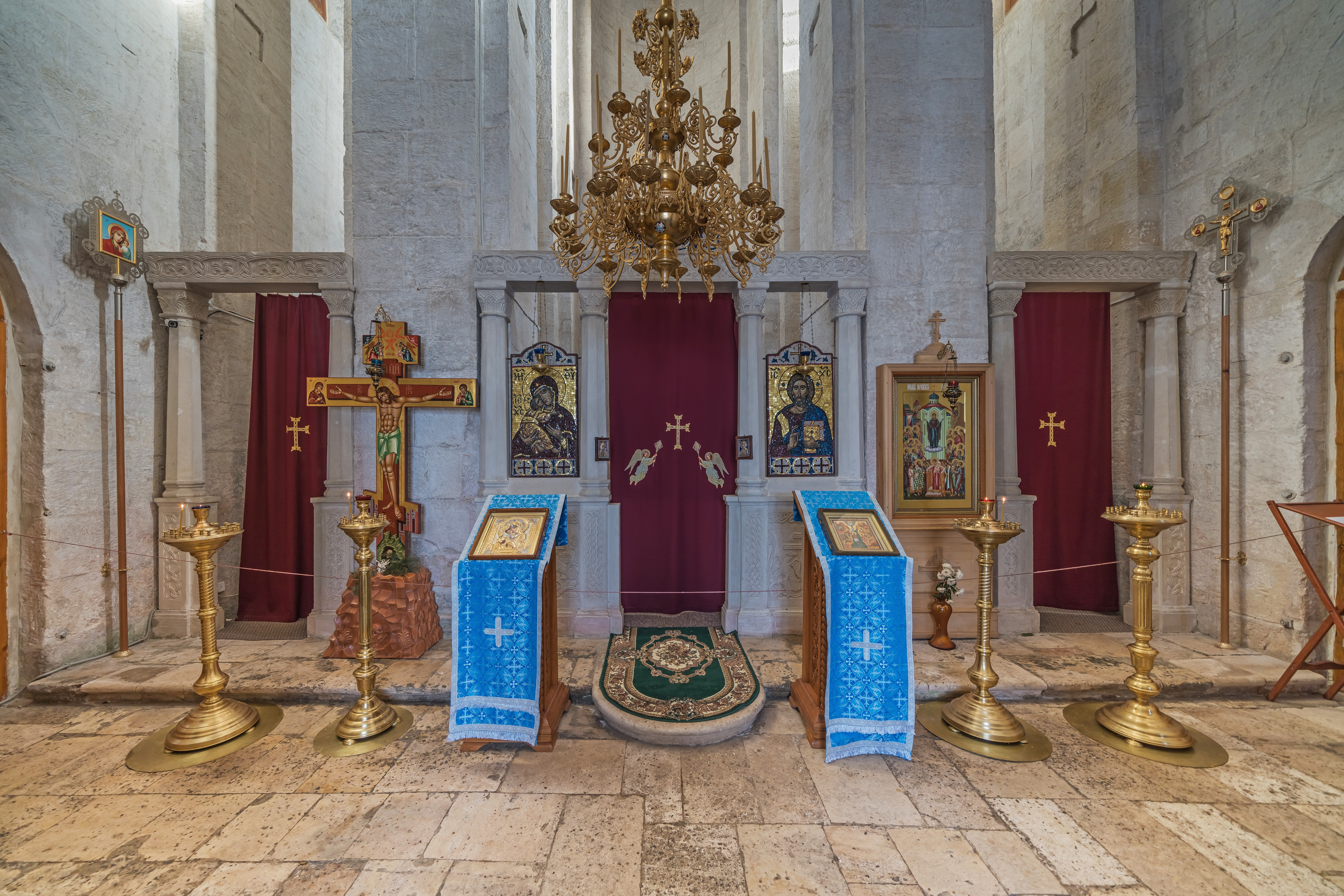 Intercession Church on the Nerl in Bogolyubovo near Vladimir, Russia